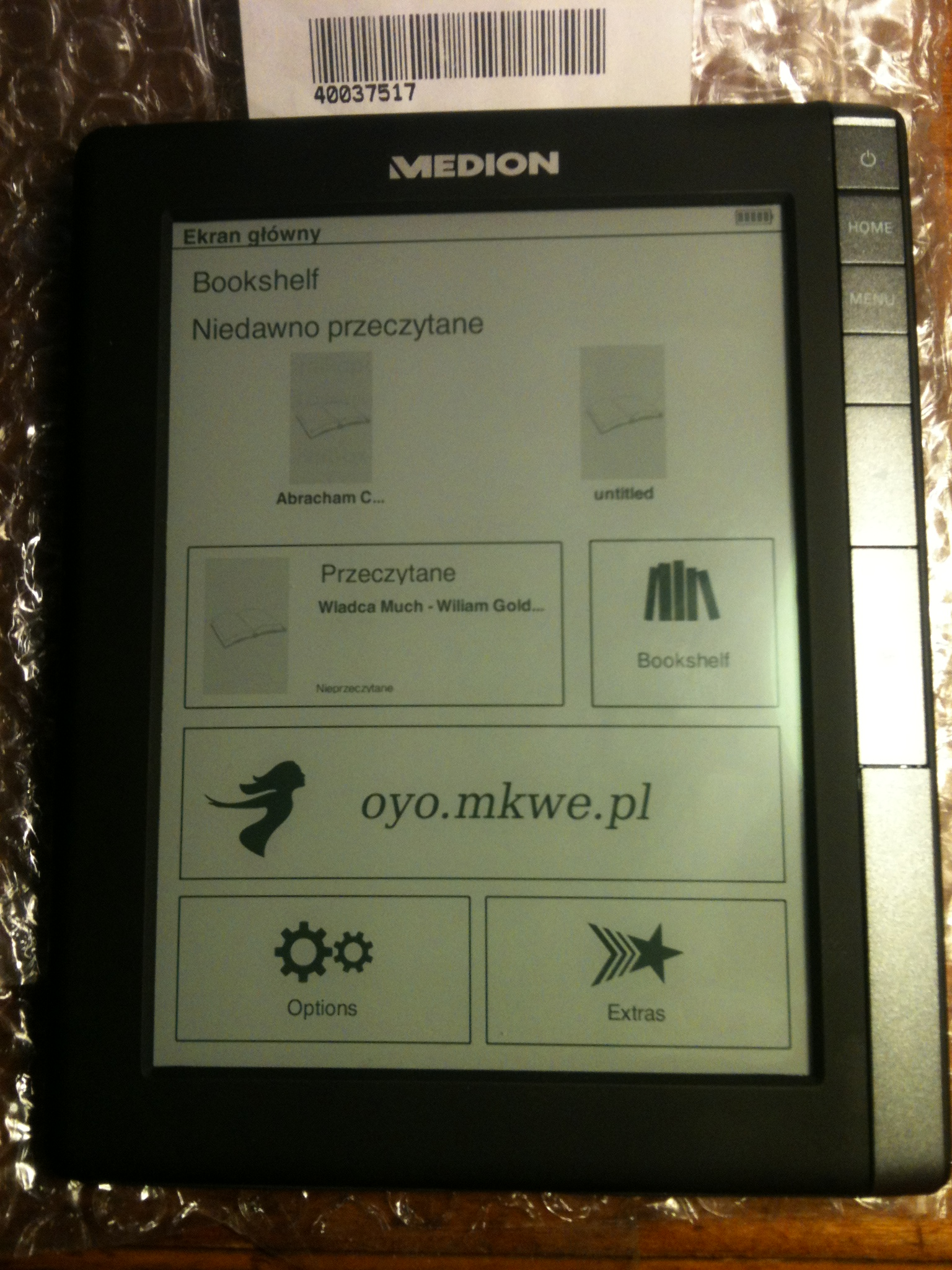 BLACK OYO (Medion P6212) alternative firmware from